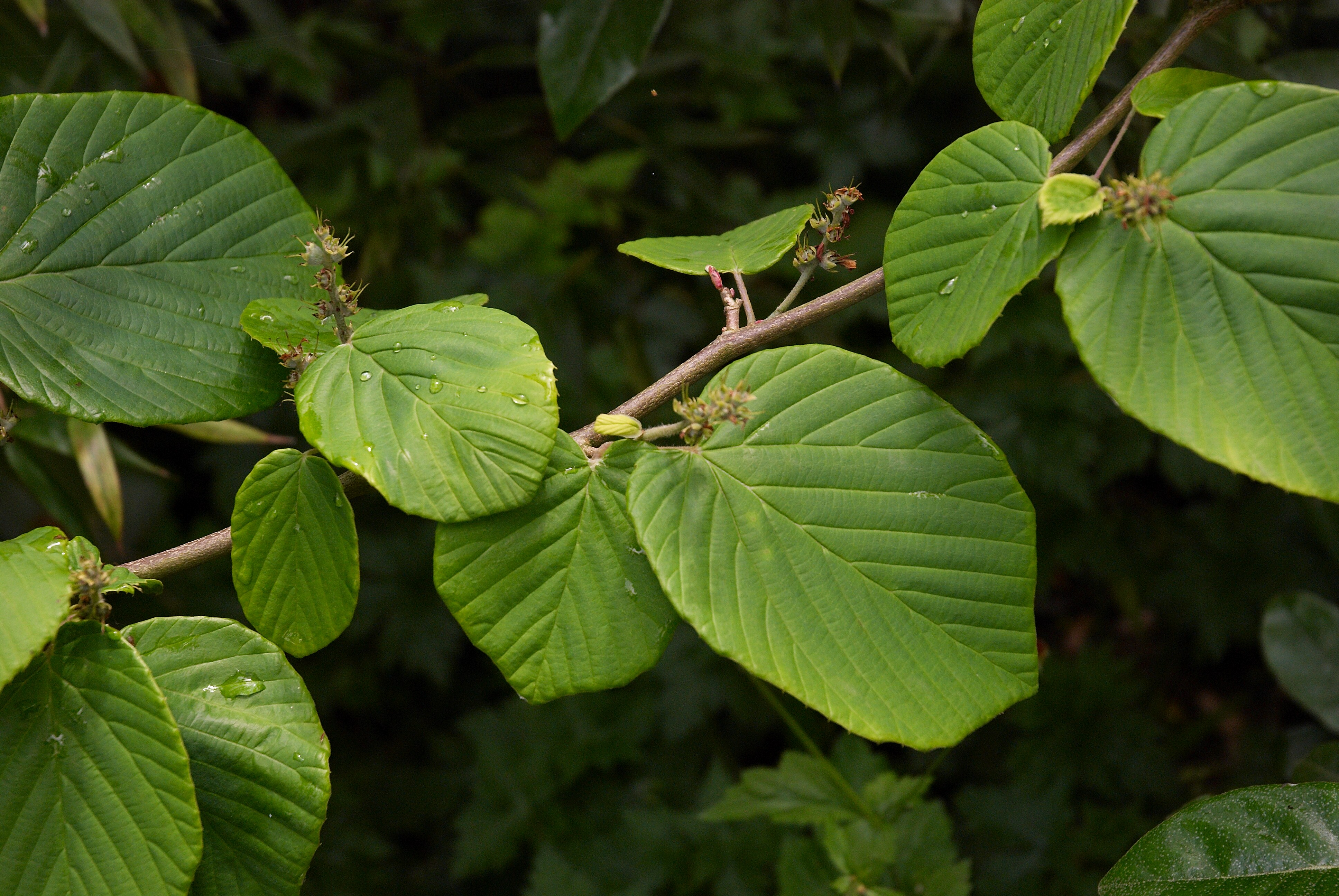 Leaves of Corylopsis Pauciflora